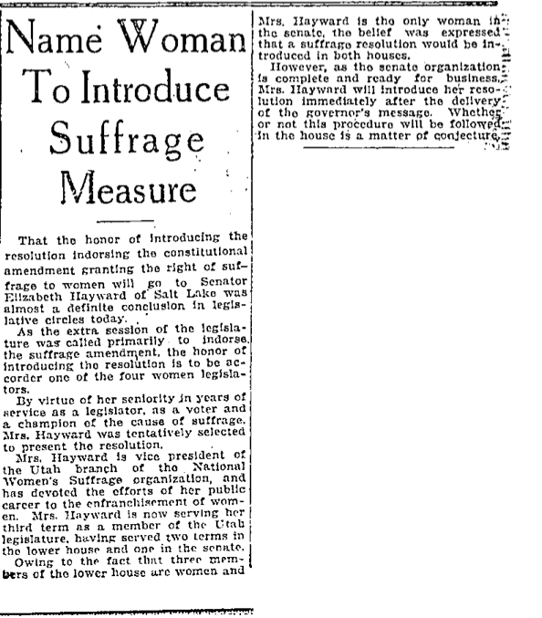 Salt Lake Telegram, "Name Woman to Introduce Suffrage Measure," September 29, 1919, 5. "That the honor of introducing the resolution indorsing the constitutional amendment granting the right of suffrage to women will go to Senator Elizabeth Hayward of Salt Lake was almost a definite conclusion in legislative circles today." Elizabeth_Pugsley_Hayward